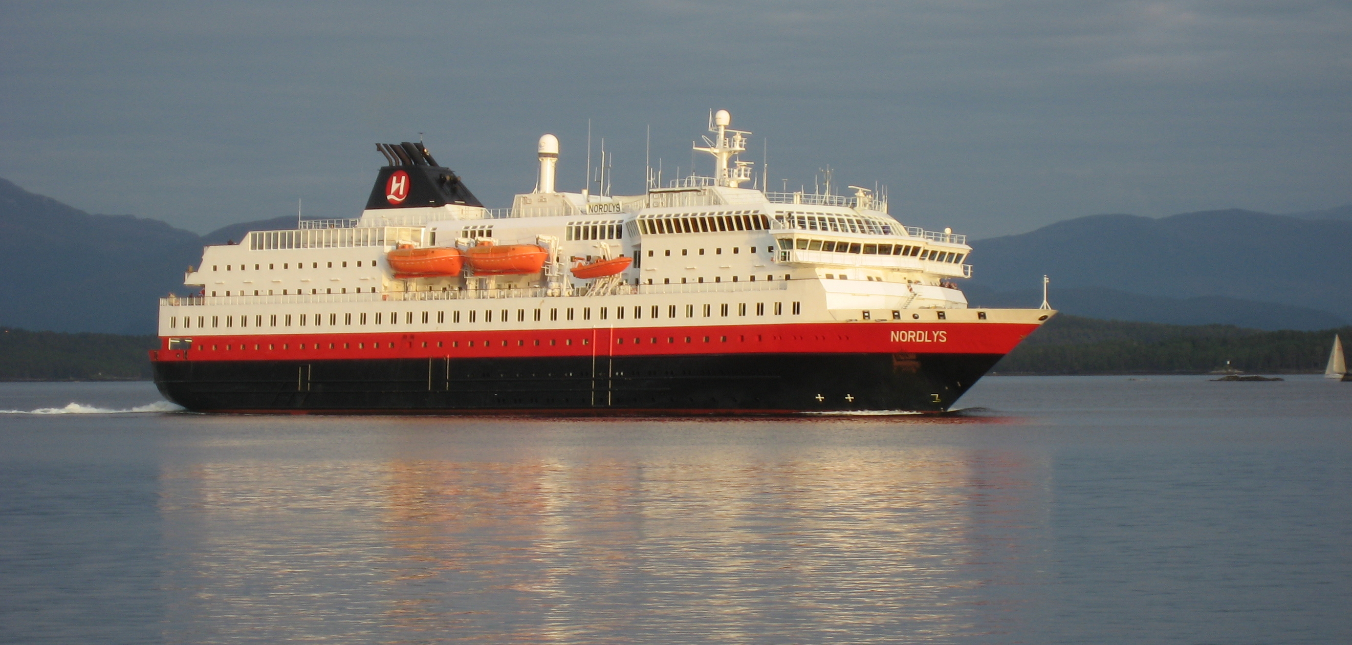 Norwegian coastal express (Hurtigruten) ship MS Nordlys leaves Molde.